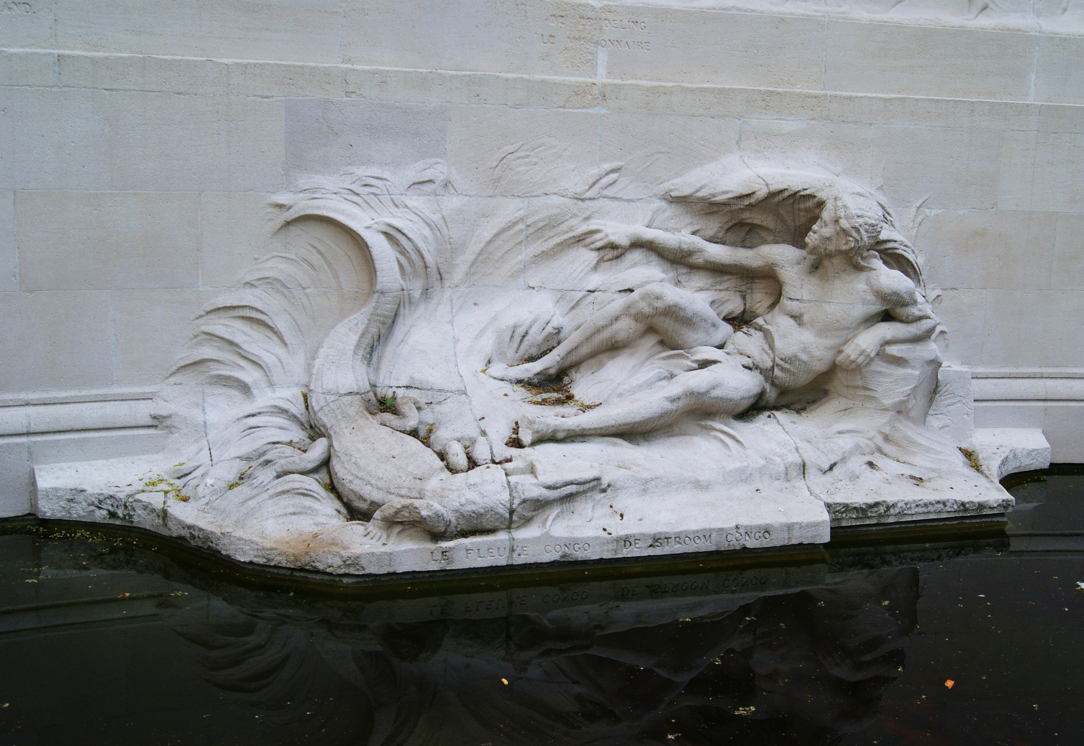 Closeup of the monument Les pionniers belges au Congo (1921) by Thomas Vinçotte, the monument is located in Parc du Cinquantenaire, Brussels (2011).